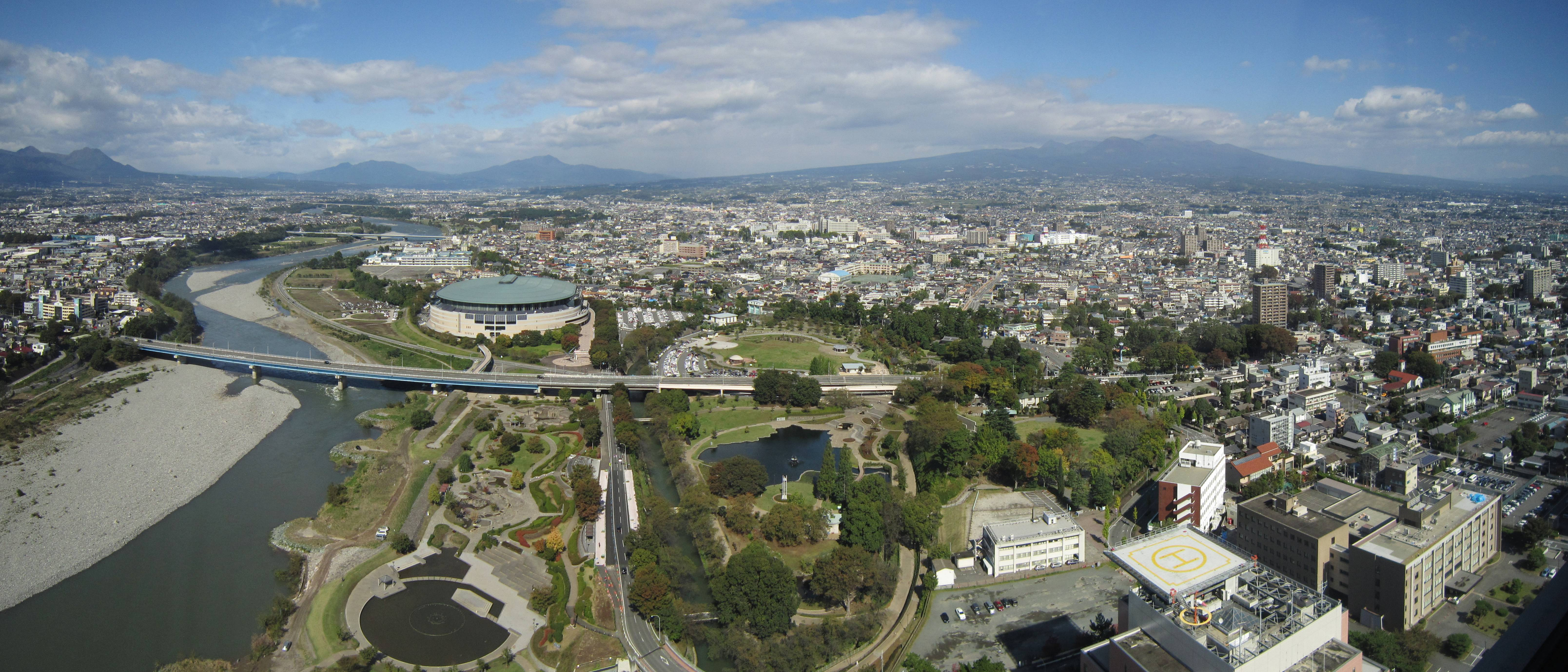 View from Gunma Prefectural Government Building (Maebashi, Gunma).